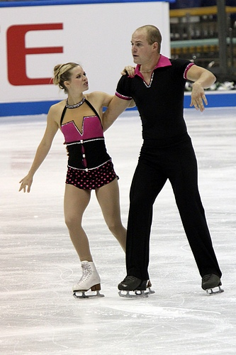 Mylene BRODEUR and John MATTATALL at the 2010 NHK Trophy.